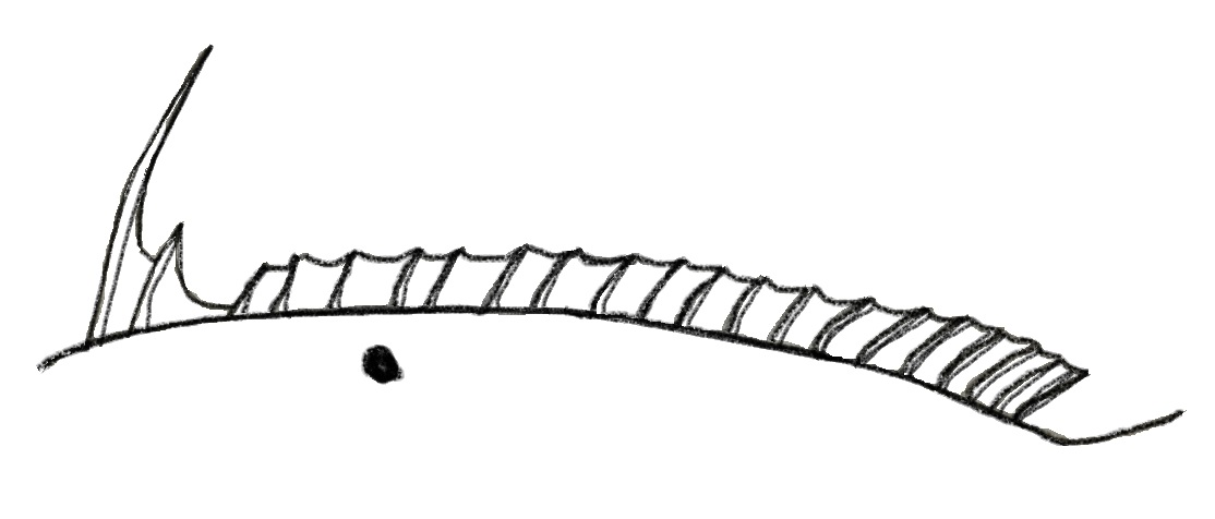 Dorsal fin of Goddes razorfish （Iniistius dea）.